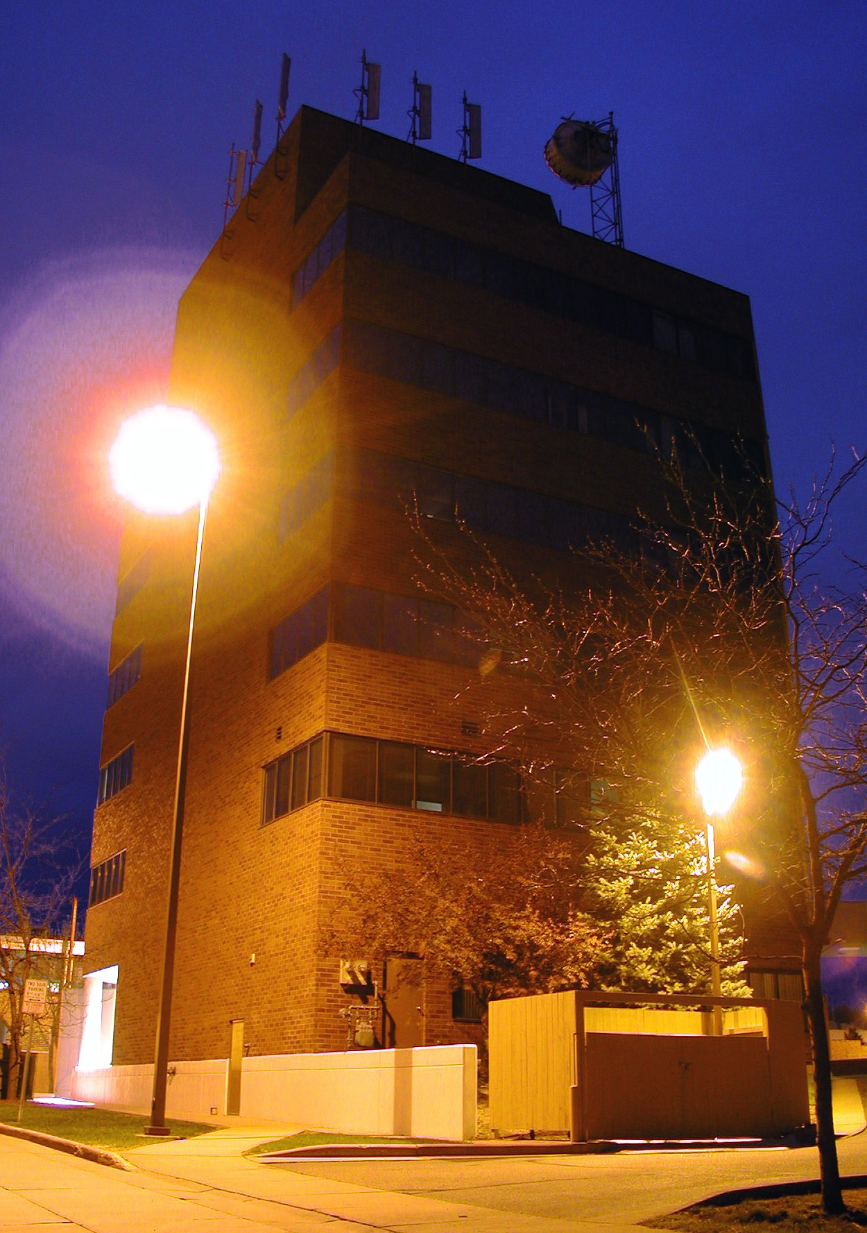 Snapshot of a downtown Eau Claire Wisconsin building.